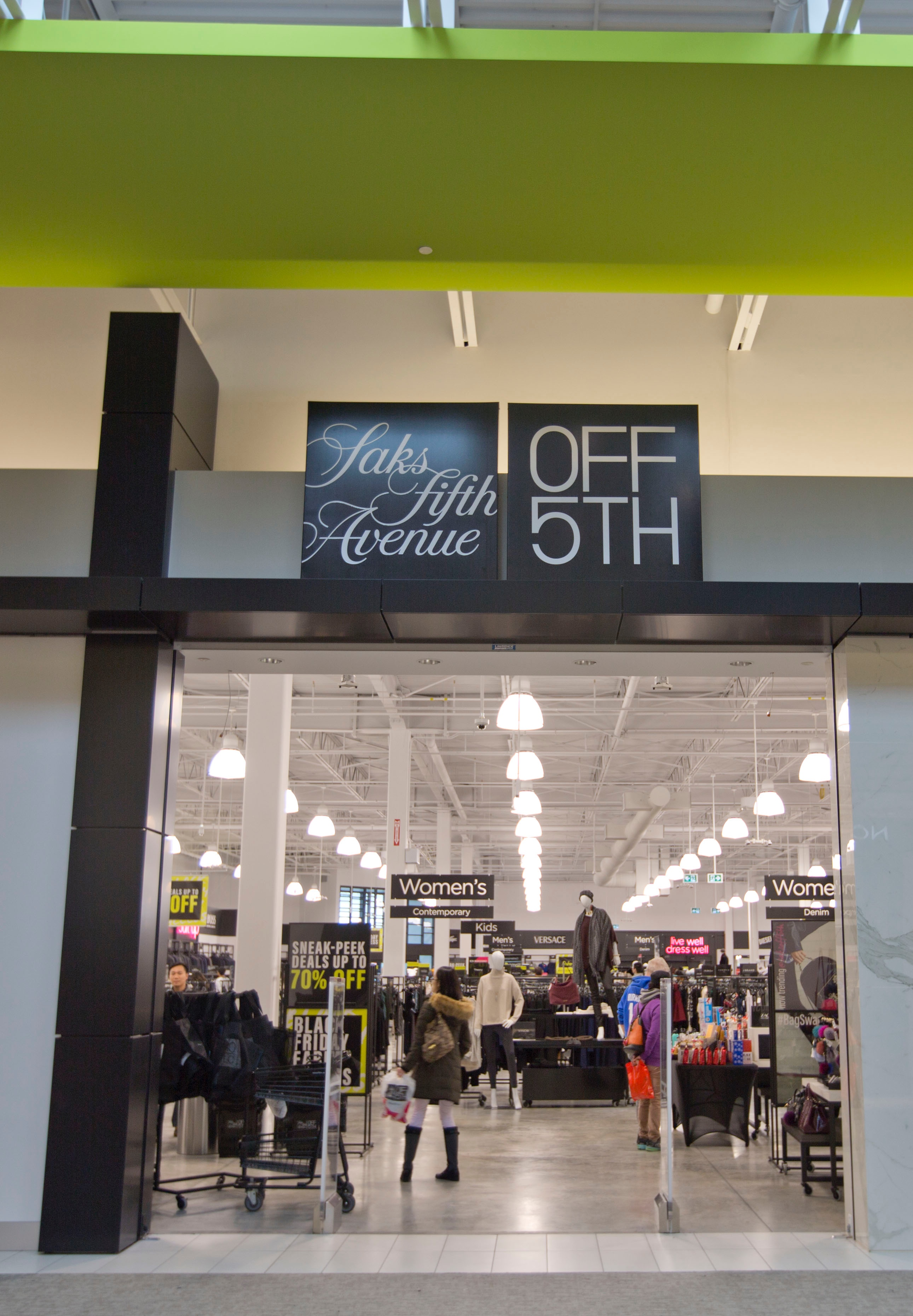 The Saks Off 5th store in the Tsawwassen Mills shopping mall.